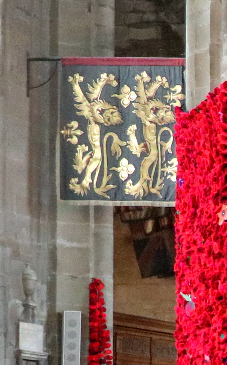 Collegiate Church of St Mary, Warwick: The Garter banner (azure two lions passant guardant between three fleurs-de-lis two in chief and one in base and two trefoils in fess all or) of the late Field Marshal Lord Montgomery of Alamein (1887–1976), which hung in St George's Chapel, Windsor Castle, during his lifetime.